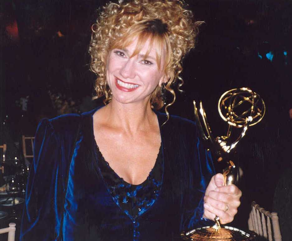 Actress Kathy Baker, Photo taken at the 45th Emmy Awards - Governor's Ball